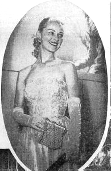 Photo of Joan Robinson Hill from a 1960 Houston Press (Scripps Howard) news story.